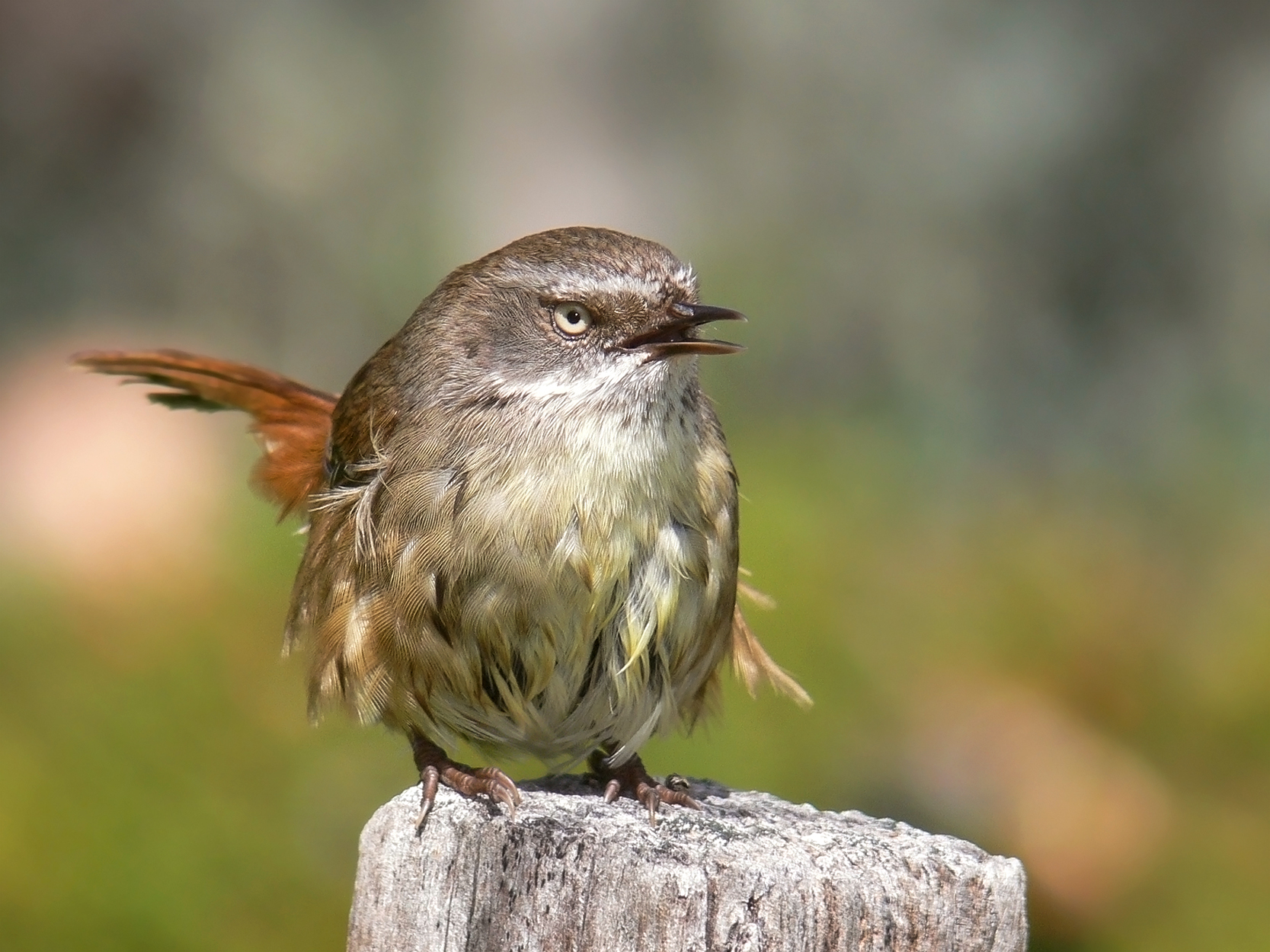 A White-browed Scrubwren female (Sericornis frontalis) vocalising, taken in South-eastern Australia.